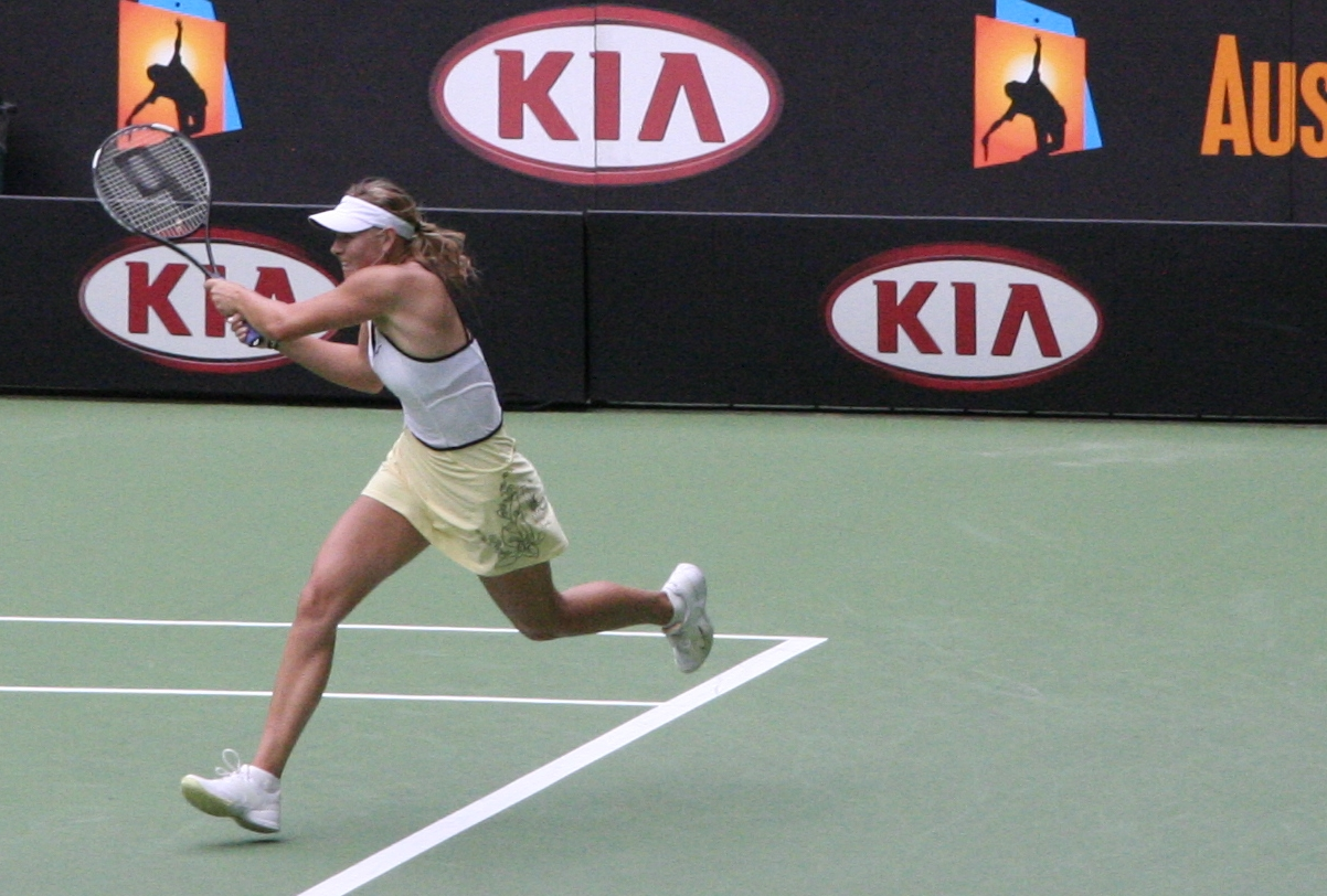 Maria Sharapova at the 2007 Australian Open, during her second-round match.